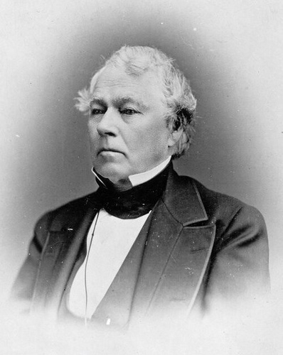 Portrait of Joseph Earl Sheffield, Connecticut railroad magnate and philanthropist. Sheffield was the benefactor of the Yale Scientific School in 1858. The school was subsequently renamed Sheffield Scientific School in 1861 in Sheffield's honor. Image courtesy of the Yale University Manuscripts & Archives Digital Images. Retouched by MarmadukePercy.